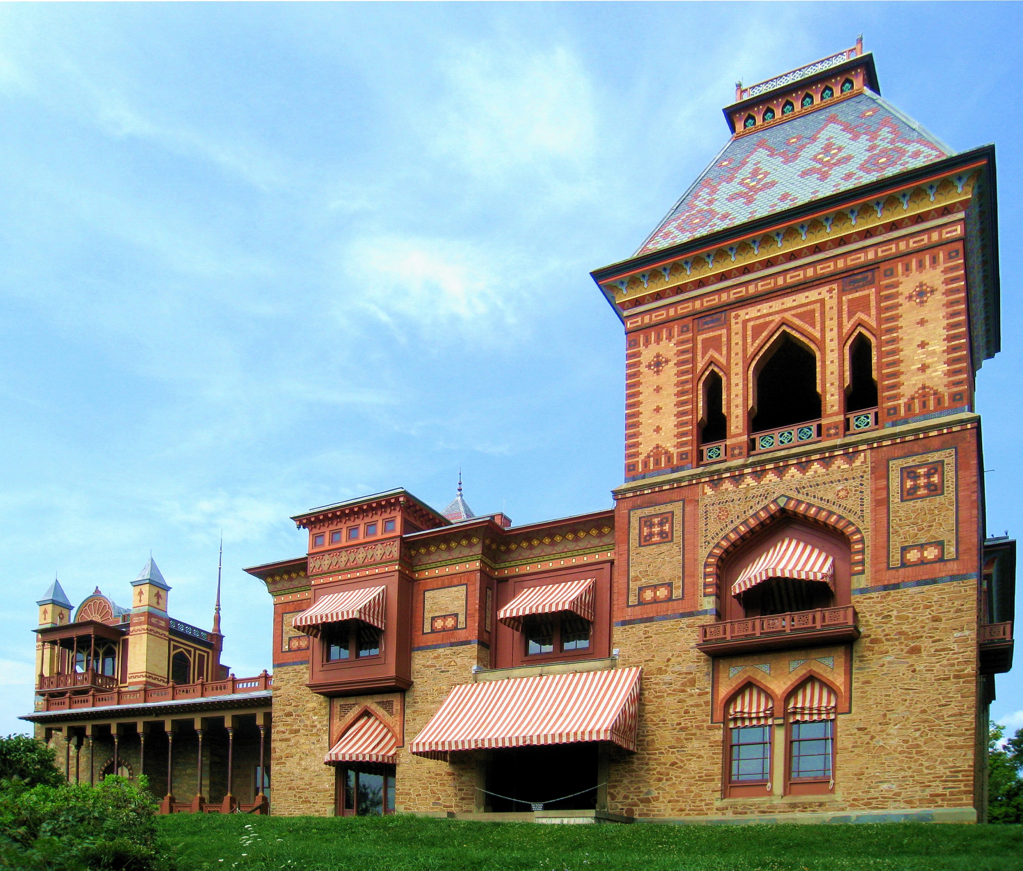 Olana State Historic Site, Columbia County, New York, USA.